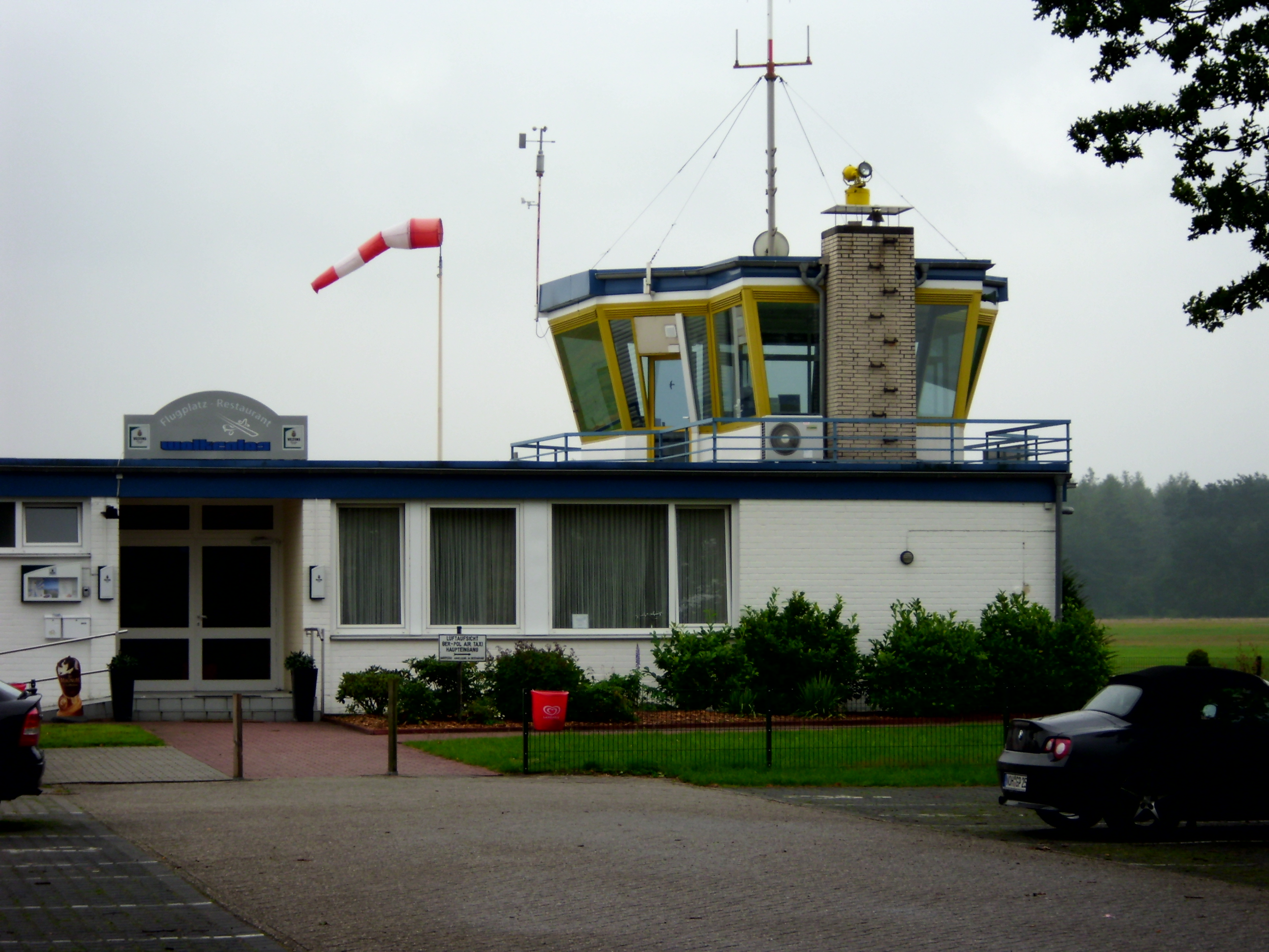 Tower of Airfield Klausheide, Lower Saxony, Germany